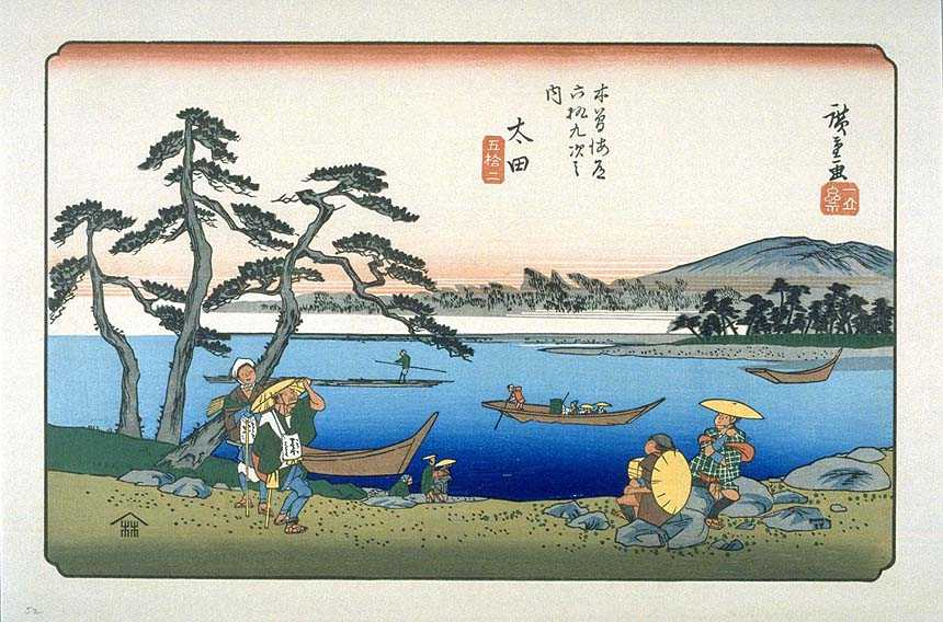 Ota on the Kisokaido, ukiyo-e prints by Hiroshige